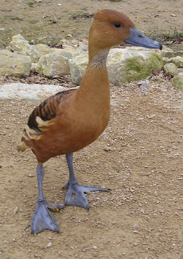 Fulvous Whistling Duck resident in Dunorlan Park, South East England